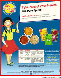 उपभोक्ता जागरूकता